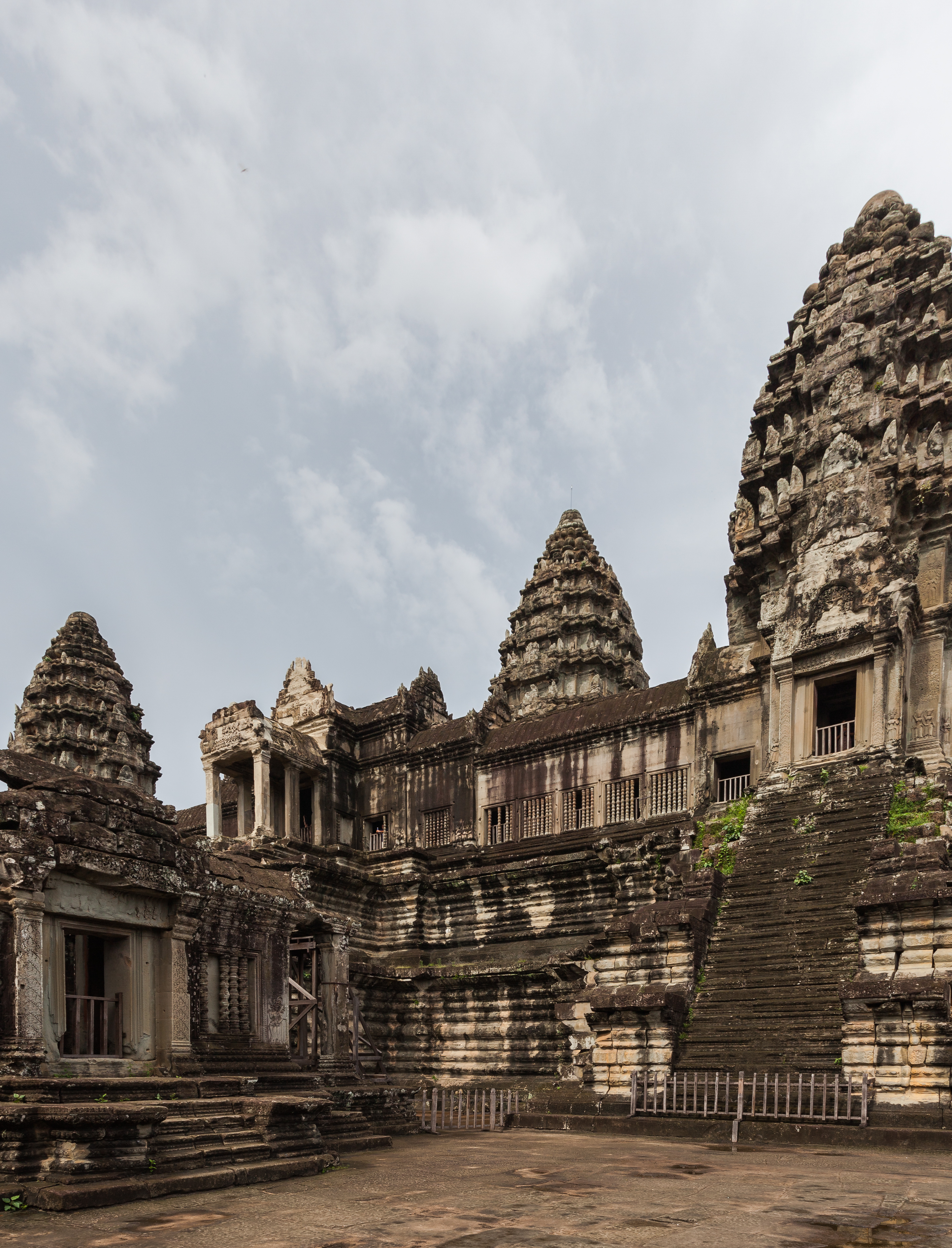 Angkor Wat, Cambodia